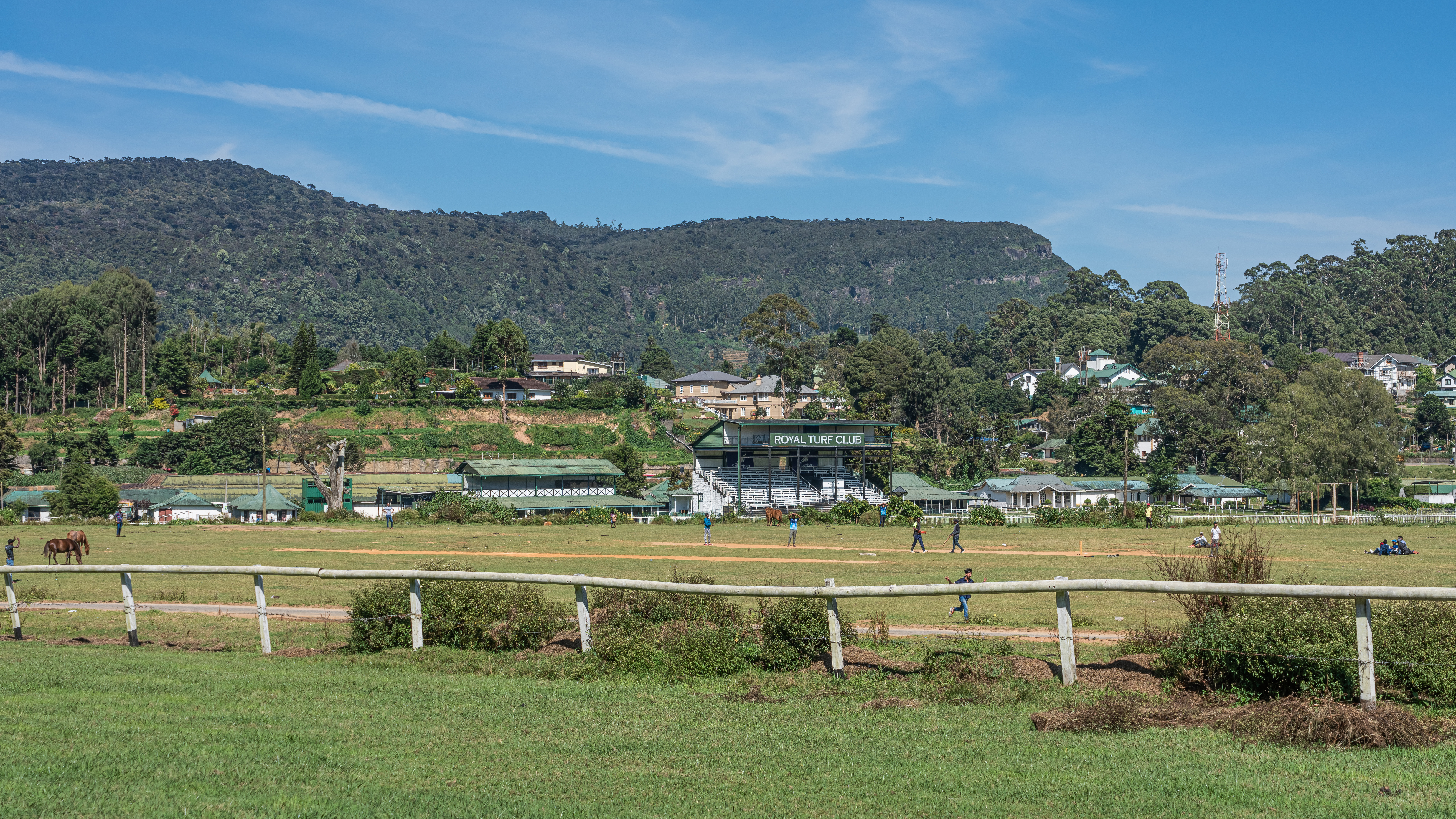 Racecourse in Nuwara Eliya, Sri Lanka